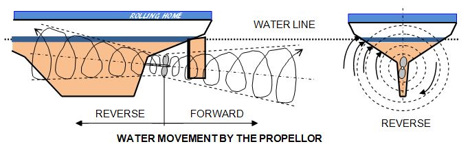 Axial and radial movement of propellor water